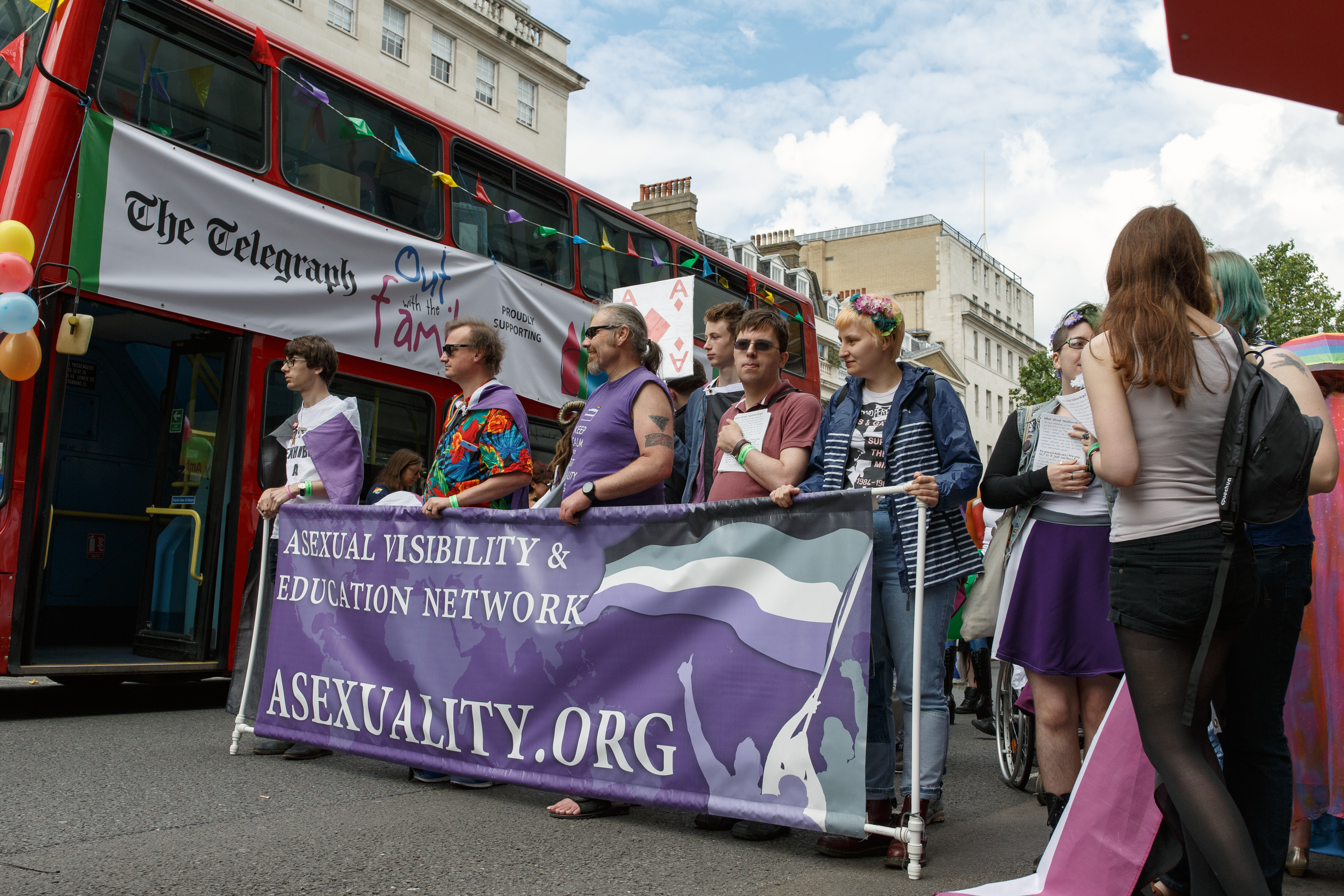 Asexual participants in the Pride in London 2016 parade.